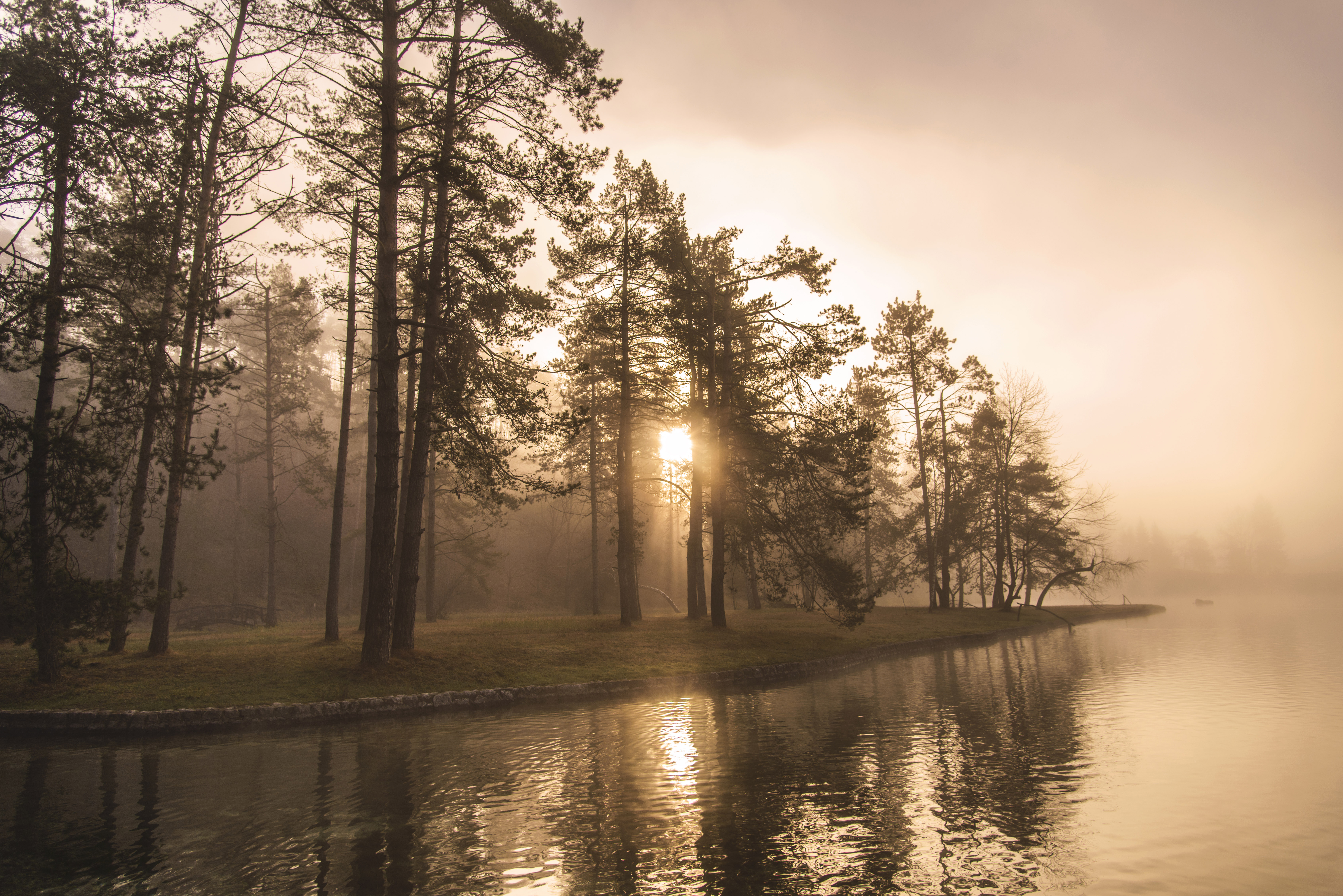 Mystic sunrise at Lake Šobec.